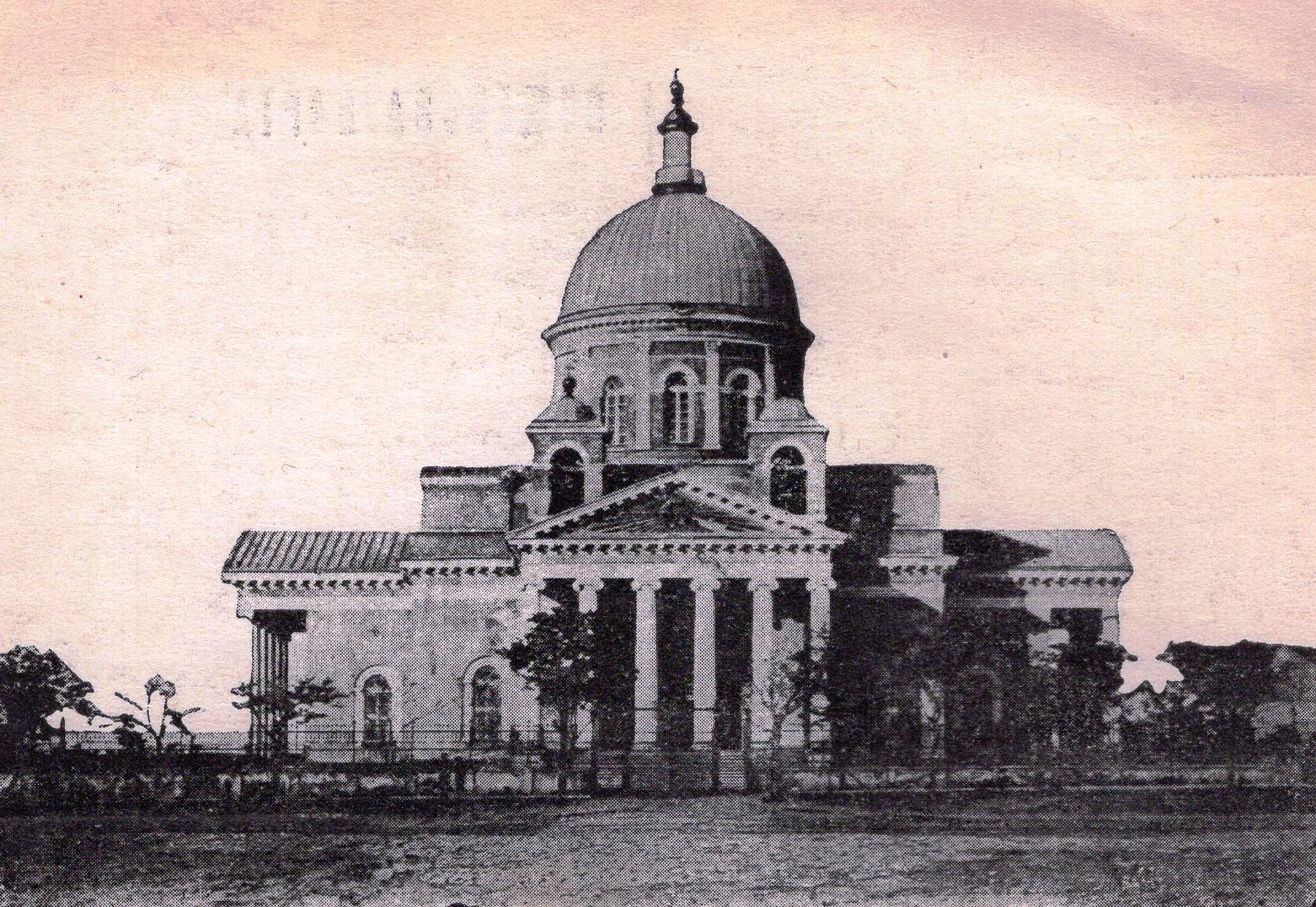 Cathedral of the Holy Transfiguration in the city Bolhrad (Bessarabia, today Ukraine) 1938 This media file is produced by Wikipedian in Residence in Category:Wikipedian in Residence at DARM in 2016.